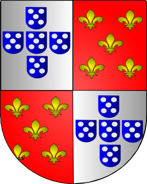 Arms of the Dukes of Albuquerque - Portugal. Made by JSobral